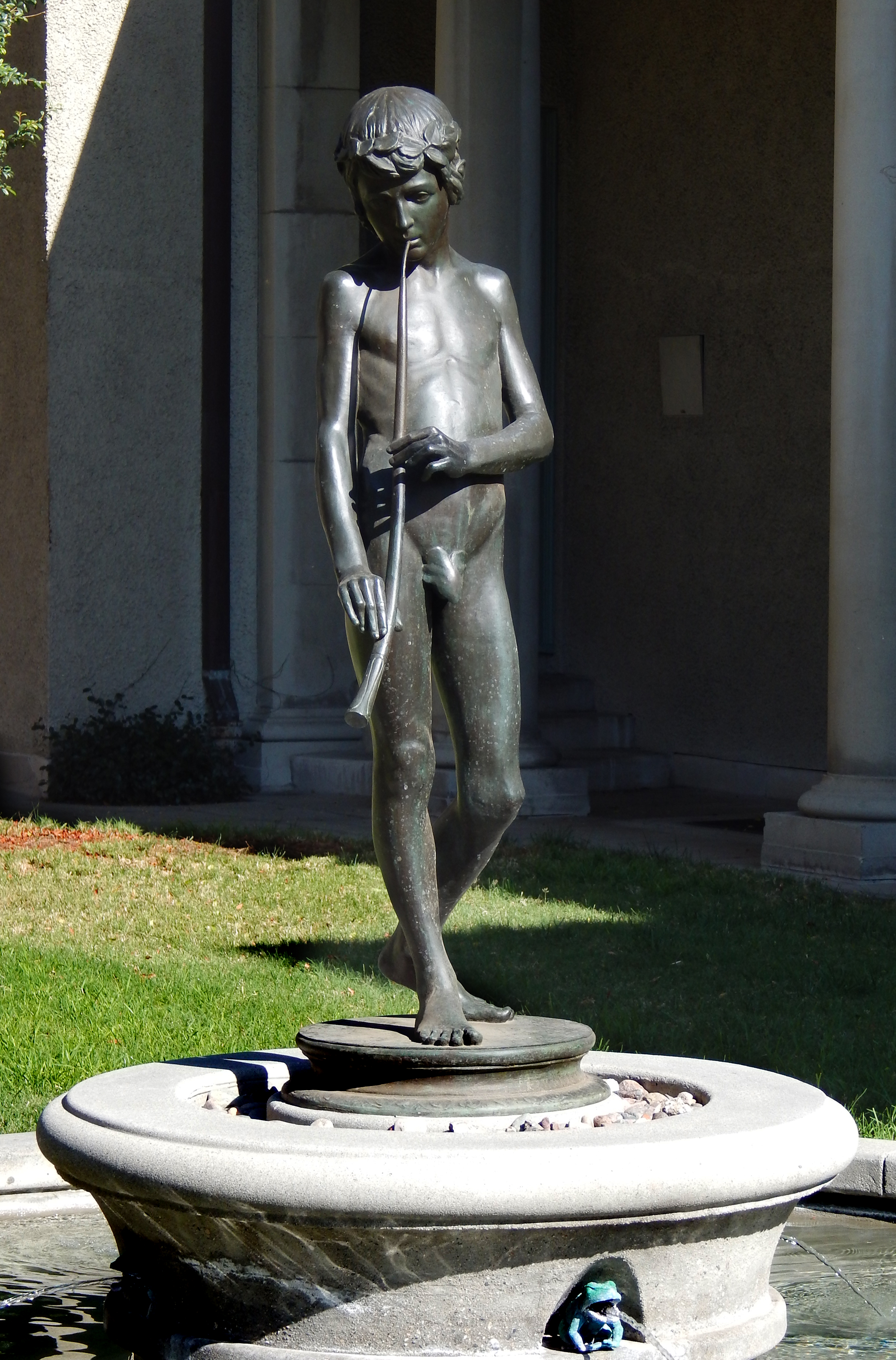 Fountain with sculpture, a gift of the Pomona College Class of 1915. After the fountain was damaged in early 2015, the fountain and the sculpture were restored and reinstalled later that same year.